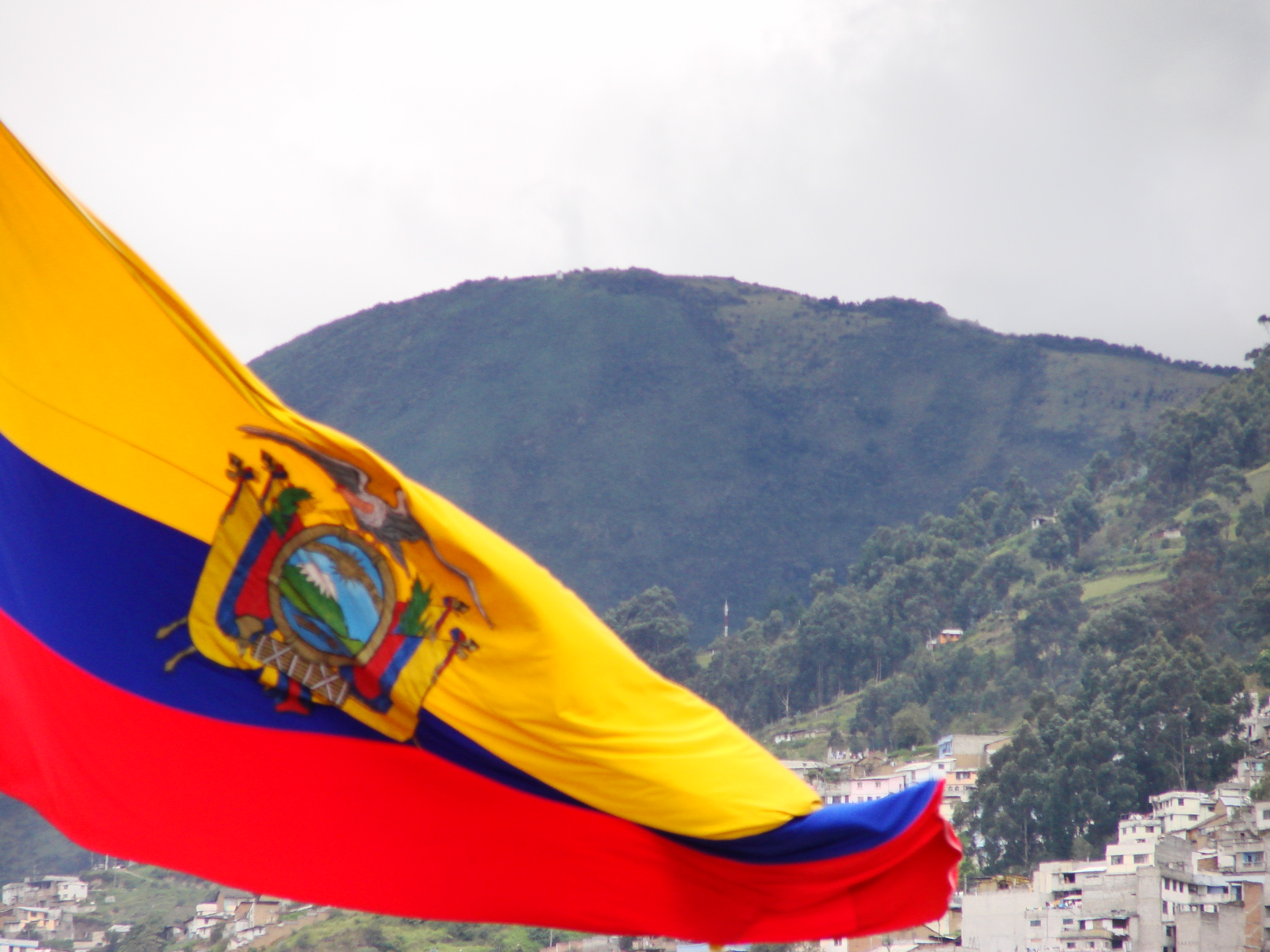 Flag of Ecuador